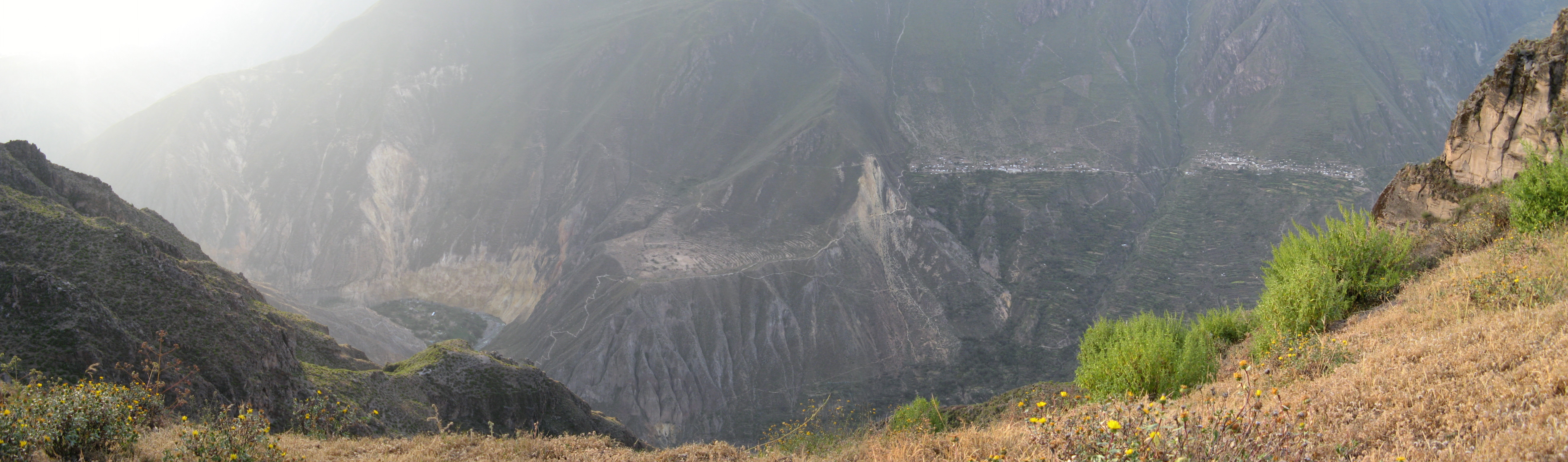 Colca Valley: Sangalle (Oasis) - on the left, terraces (in the middle) and two villages: Malata and Coshnirwa on the right.